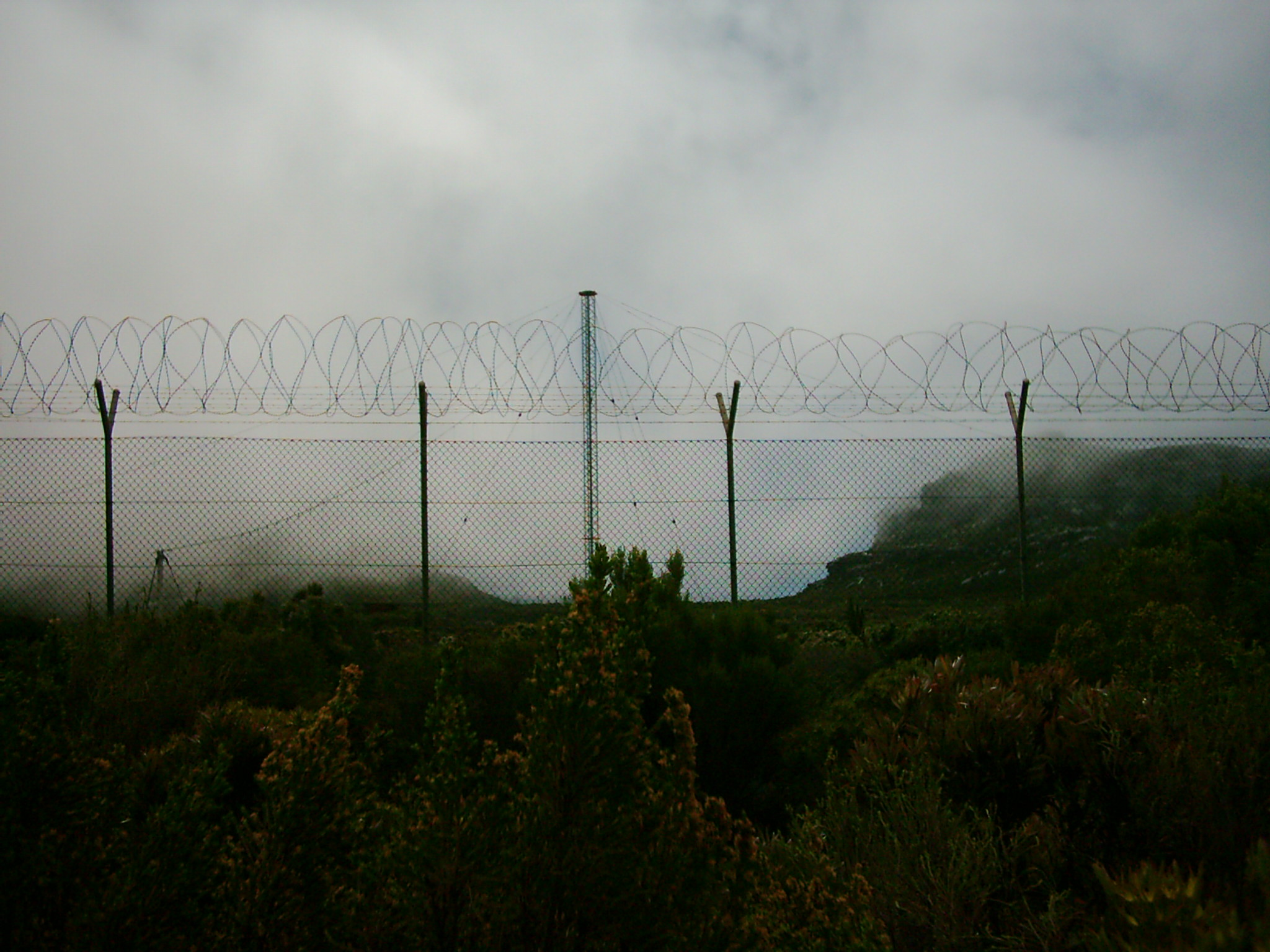 Antenna 1 in former Echelon intelligence gathering station at Silvermine, Cape Peninsula